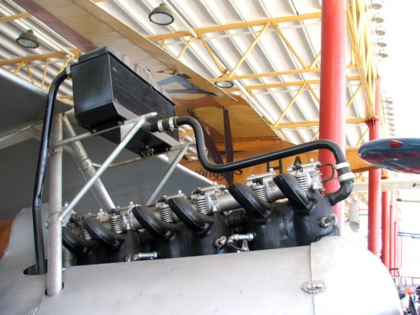 Hansa-Brandenburg B.I exhibited at the Budapest Aviation Museum; engine.